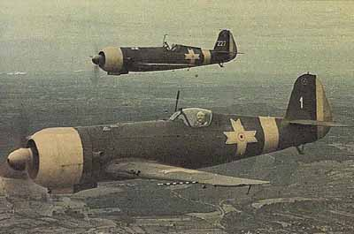 Two IAR-80 return from IAR factory after being repaired there.